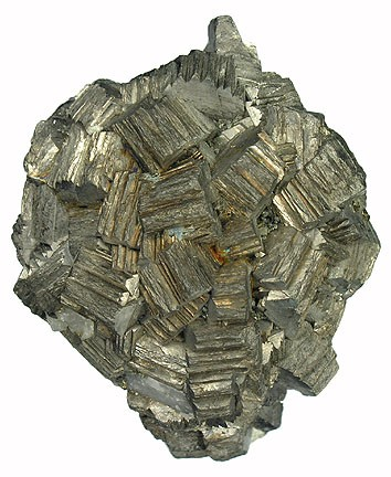 Arsenopyrite Locality: Yaogangxian Mine, Yizhang County, Chenzhou Prefecture, Hunan Province, China (Locality at ) Size: 4.2 x 3.3 x 2.2 cm. A beautiful cock’s comb crystal group of sharp, metallic brassy-silver colored Arsenopyrite from Yaogangxian. I have not seen many specimens with the attractive form. Ex. Brian Kosnar.